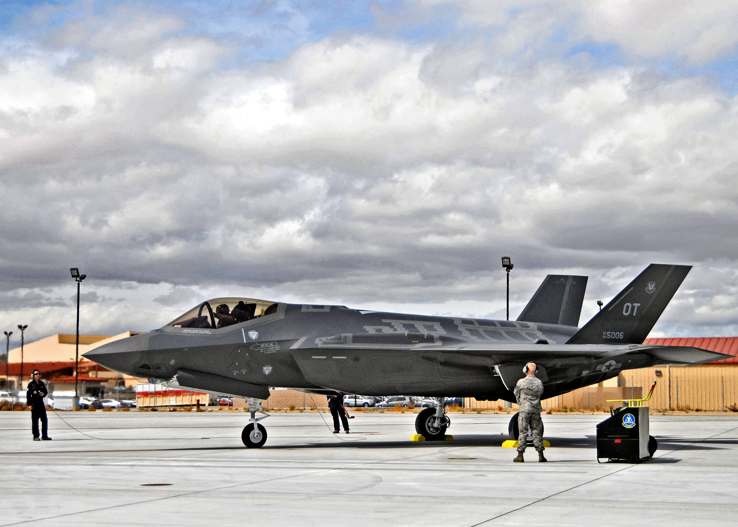 31st Test and Evaluation Squadron Lockheed Martin F-35A Lightning II 09-5006. This aircraft was assigned to the squadron in March, 2013 for Operational Testing in how to best operate the aircraft in a combat environment.